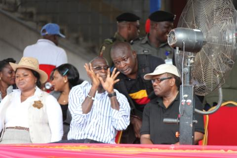 Photo of Lukman Olaonipekun with Governor Babatunde Fashola of Lagos State